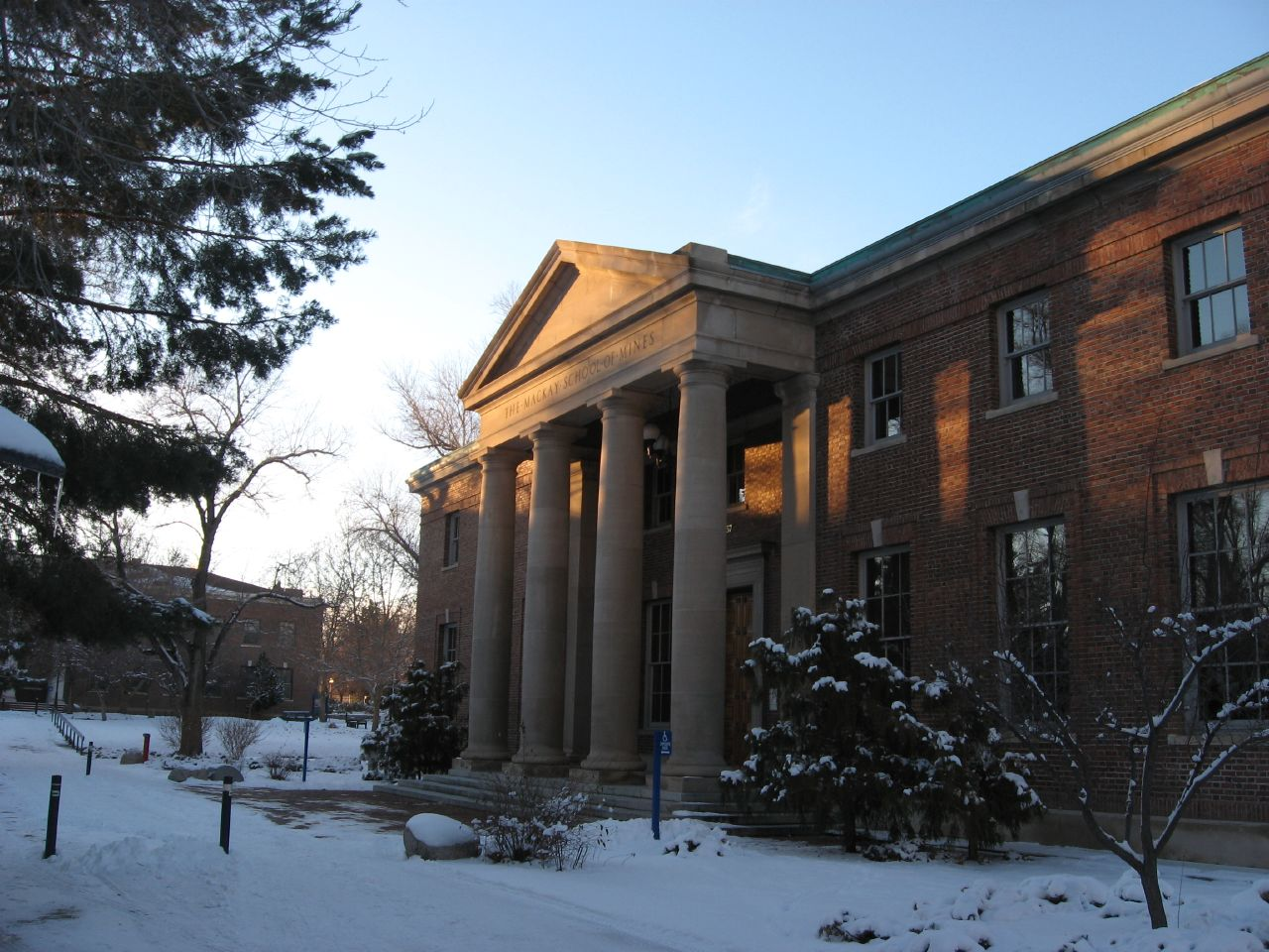 The Mackay School of Earth Sciences and Engineering, formerly Mackay School of Mines, is a specialized school within the University of Nevada, Reno. It is named after John William Mackay. In June 1908 the Mackay School of Mines was presented to the University of Nevada, as a memorial to him, by his widow and his son, Clarence H. Mackay. A statue of John Mackay by Gutzon Borglum stands in front of the mining building on the main quad of the campus. The W.M. Keck Earth Science and Metal Engineering Museum is located within the building. It focuses on early Nevada mining history and also contains a collection of ornate Mackay family silver completed by Tiffany & Co. in 1878. Part of the College of Science, the School has three academic departments: Geological Sciences and Engineering, Mining Engineering, and Geography.The Mackay School also houses four departments devoted to public service: Nevada Bureau of Mines and Geology, Nevada Seismological Laboratory, Nevada State Climate Office, and the Nevada Stable Isotope Laboratory. Research facilities include the Great Basin Center for Geothermal Energy, Center for Research in Economic Geology, Mining Life-Cycle Center, Center for Neotectonic Studies, Arthur Brant Laboratory for Exploration Geophysics, Collaboratory for Computational Geosciences, Dendro Laboratory, and Geospatial Laboratory. The school is also affiliated with the U.S. Geological Survey and Desert Research Institute.